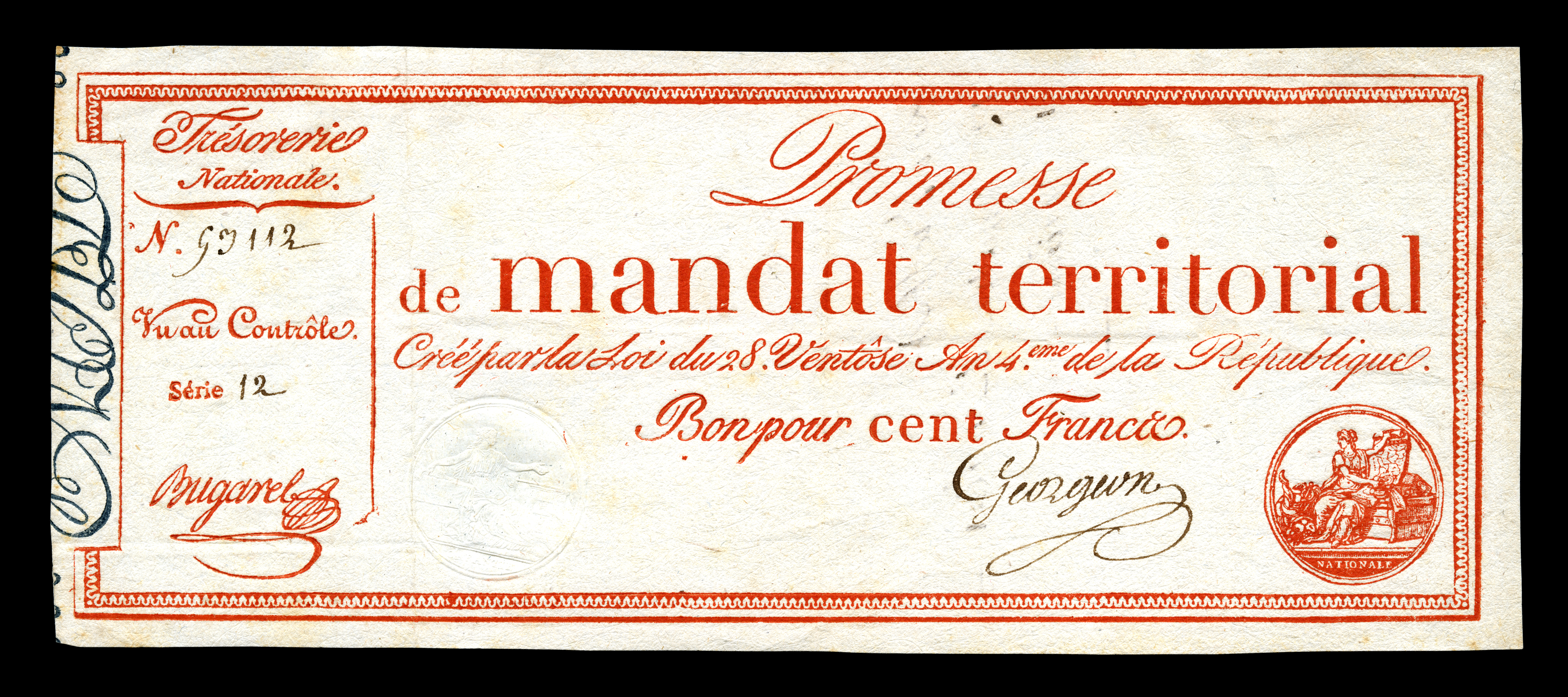 Early French paper currency part of an issue known as Promesses de Mandats Territoriaux (fiat money designed to replace the assignat) - 100 Francs, 1796 Issue (Pick ref# A84b).